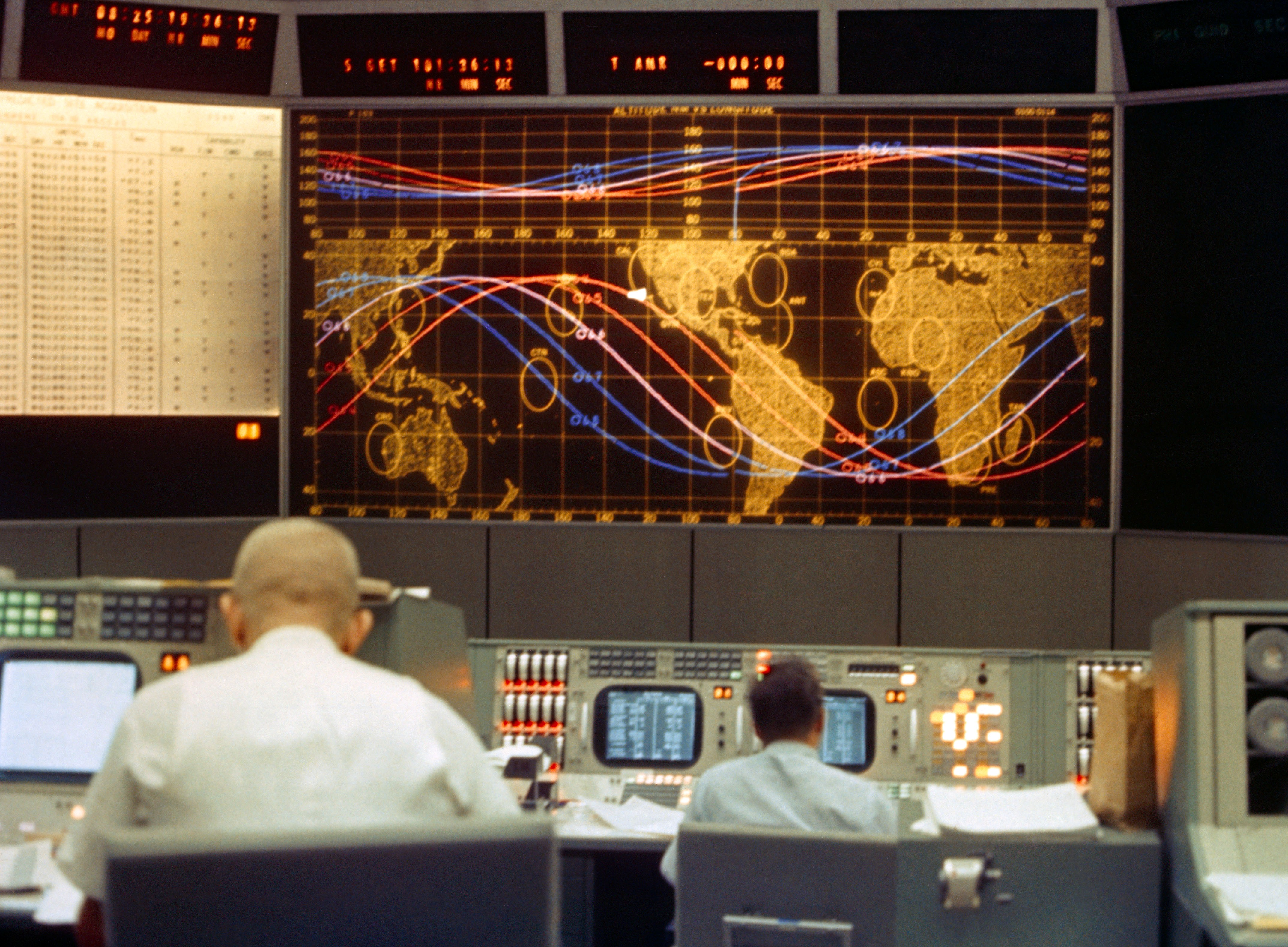 View of the tracking screen at the front of the Mission Control Center during the Gemini-5 spaceflight. Image ID: S65-45083